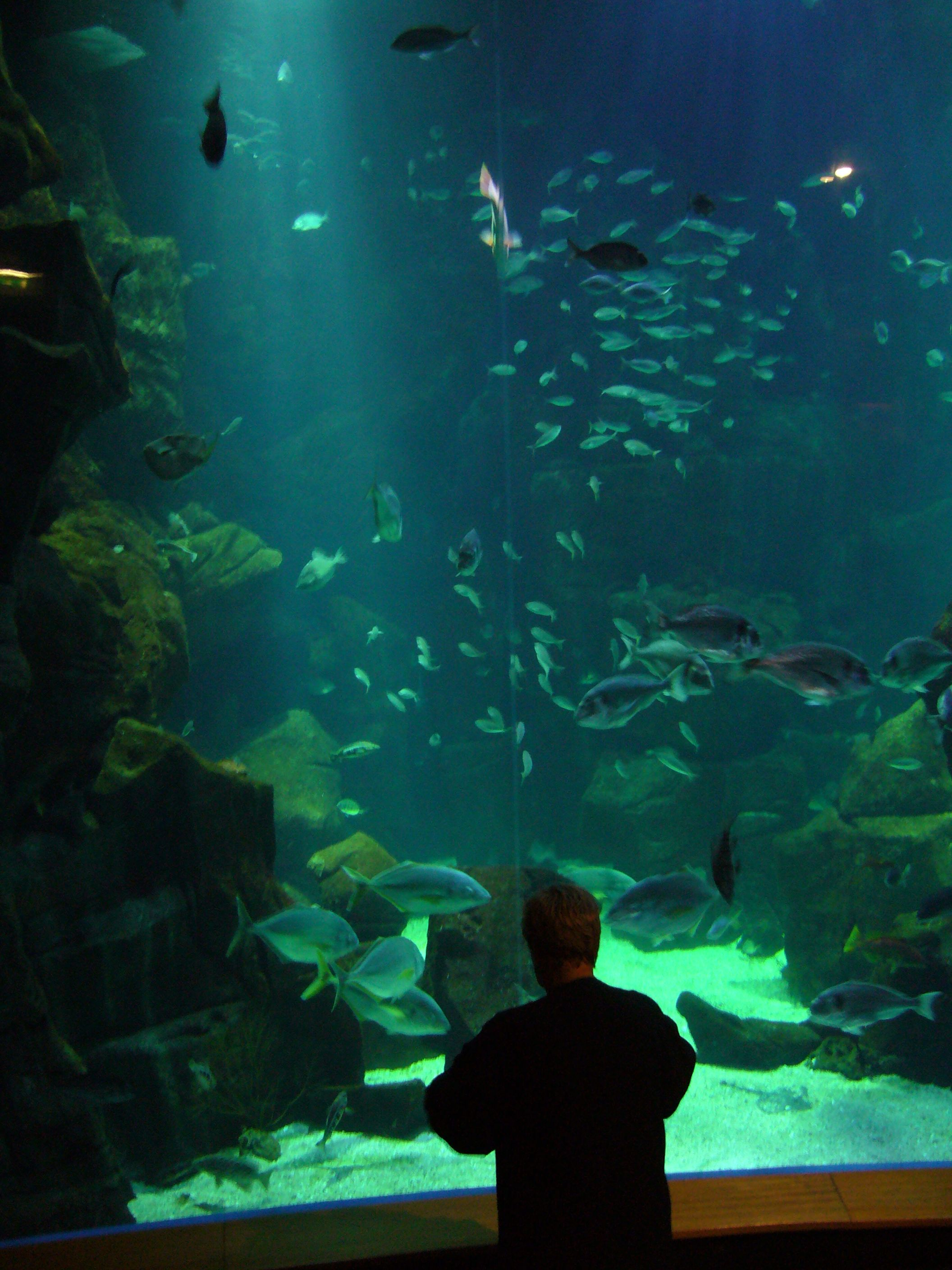 Sea aquarium in Porto Moniz - Madeira